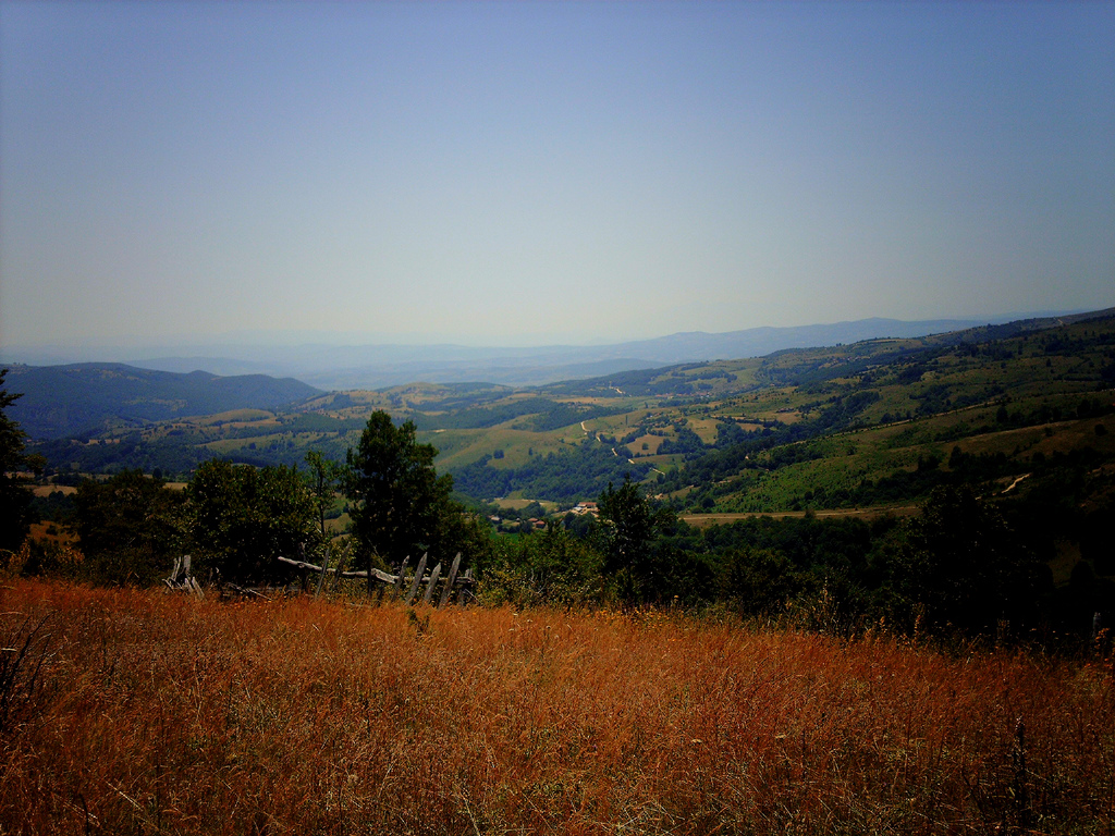 Cipel: At 1037 meters one of the highest peaks in Desivojca village